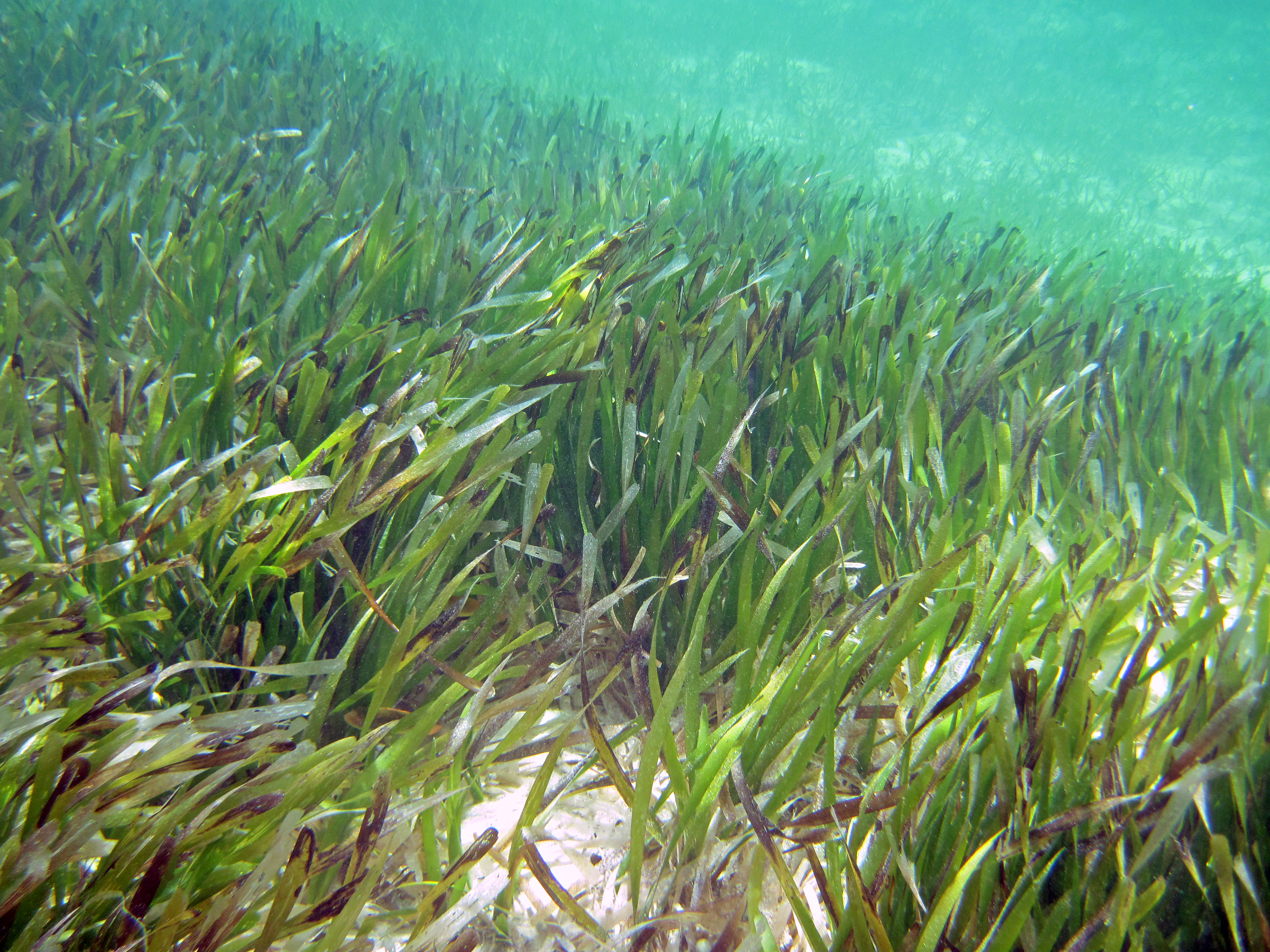 Thalassia testudinum König, 1805 - turtle grass. Seagrasses are fully marine angiosperms (flowering plants). Seagrass beds only occur in the shallow water photic zone. Classification: Plantae, Angiospermophyta, Najadales, Hydrocharitaceae Locality: South Pigeon Creek estuary, southeastern San Salvador Island, eastern Bahamas